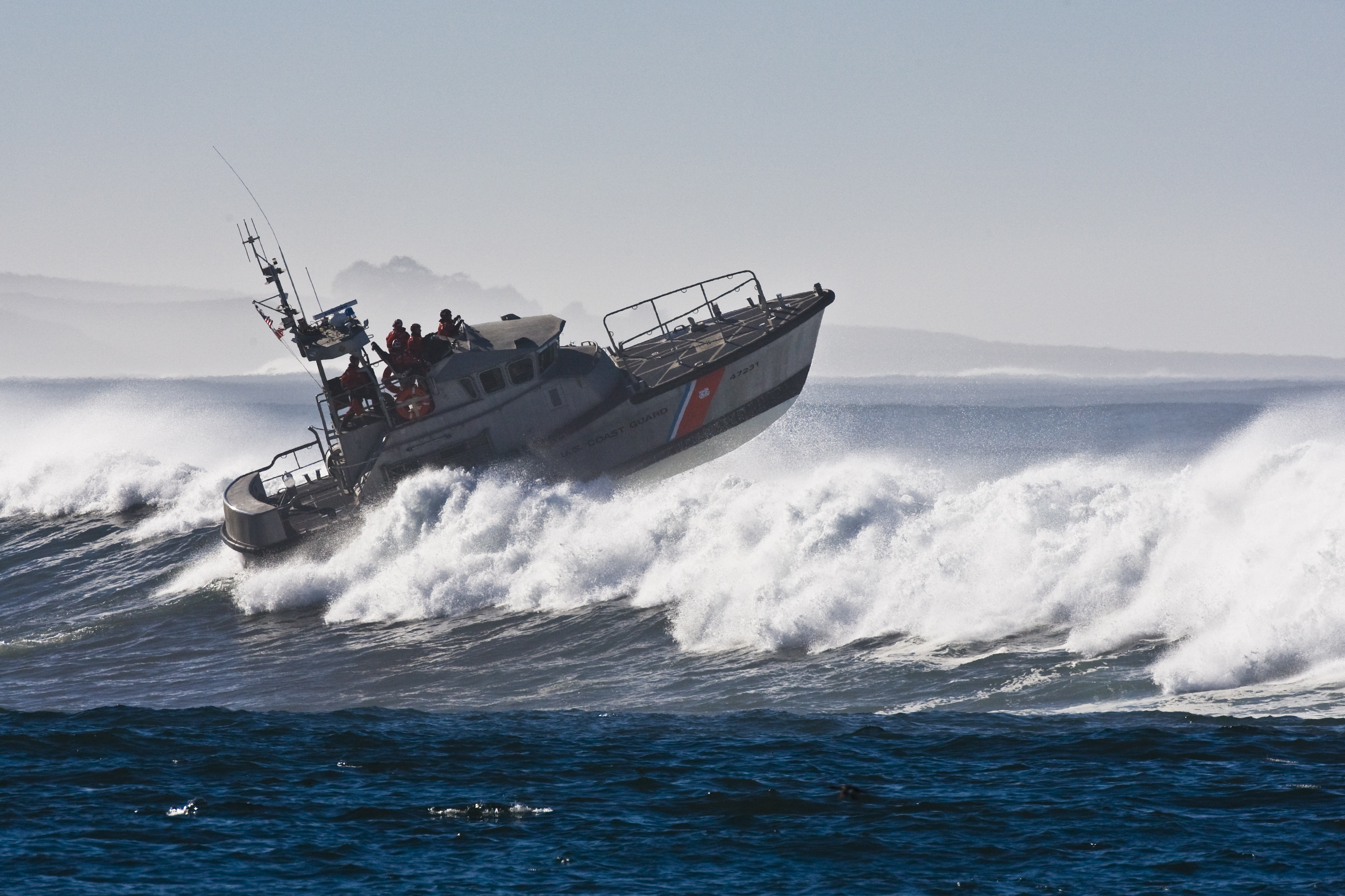 United States Coast Guard 47-foot Motor Lifeboat from Coast Guard Motor Lifeboat Station Morro Bay in Morro Bay, California; taken from land at the base of Morro Rock